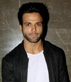 Rithvik Dhanjani at the premiere of Intern